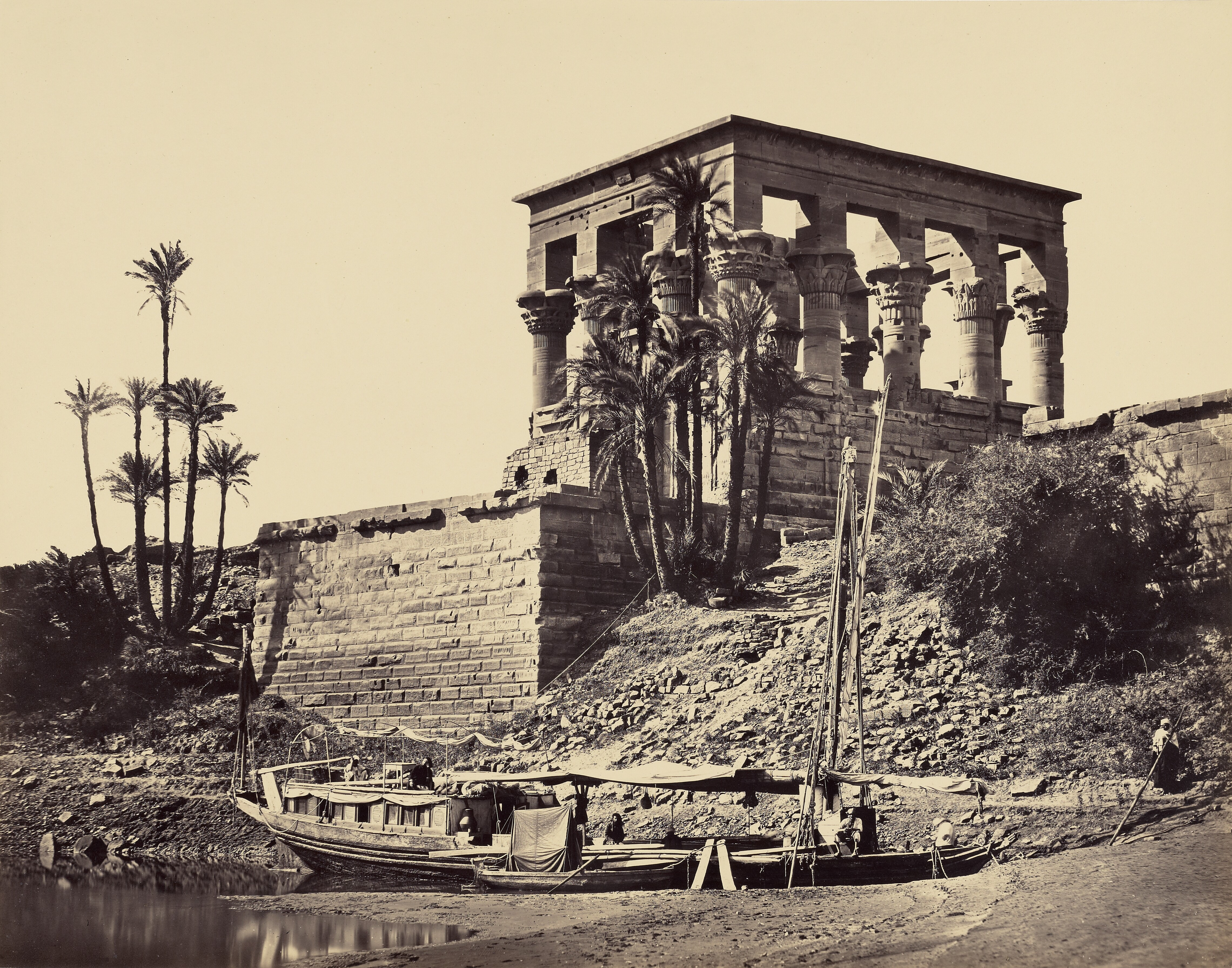 The Hypaethral Temple, Philae (Trajan's Kiosk, now moved to the island of Agilika). Albumen print, original size 38.2×49.0 cm.